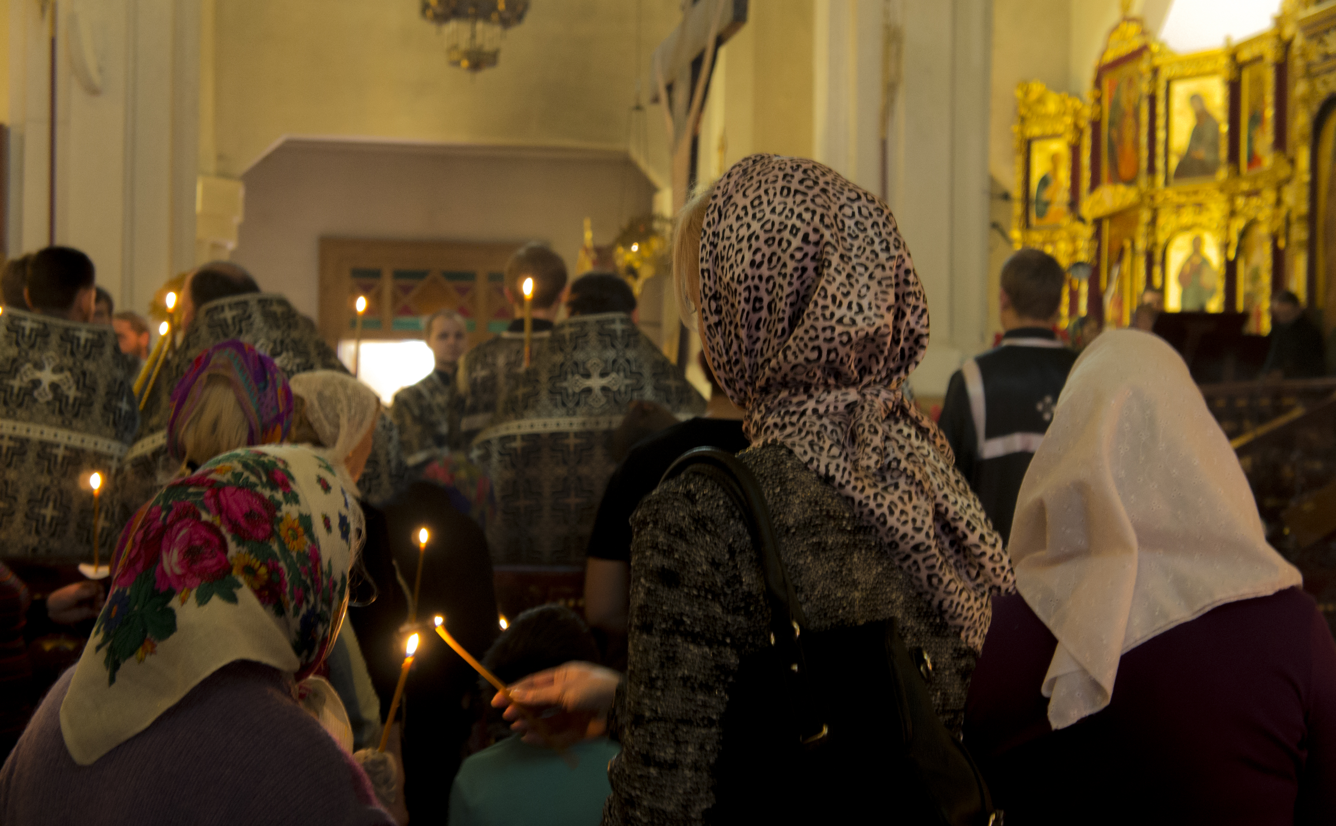 Orthodox liturgy in Zenkov cathedral, Almaty, Kazakhstan.